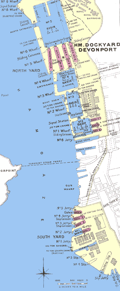 HMNB Devonport, cropped from Image:Devonport Dockyard in 1909 plan original.jpg with the following edits by User:Jamesday asserted to be GFDL: Choice of cropping range. Movement of caption to selected place. Editing and movement of scale to new location. Background editing to smooth color transitions. Compass rose scaling, choice and repositioning.. Choice of color correction to remove effect of aging on the original scan. Choice of operations to reduce color depth. Selecton of tools and techniques to maximally compress the final PNG image.